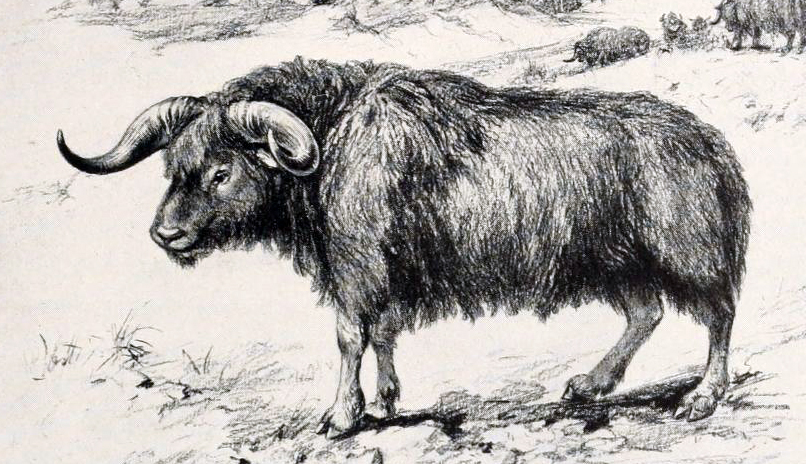 crop of file in file name